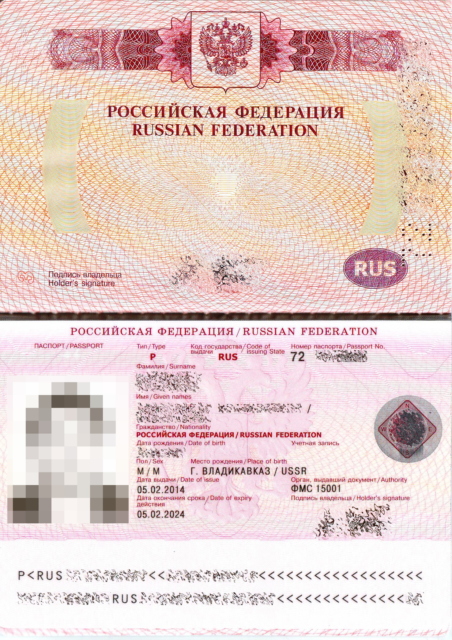 Data page of a Russian biometric passsport.